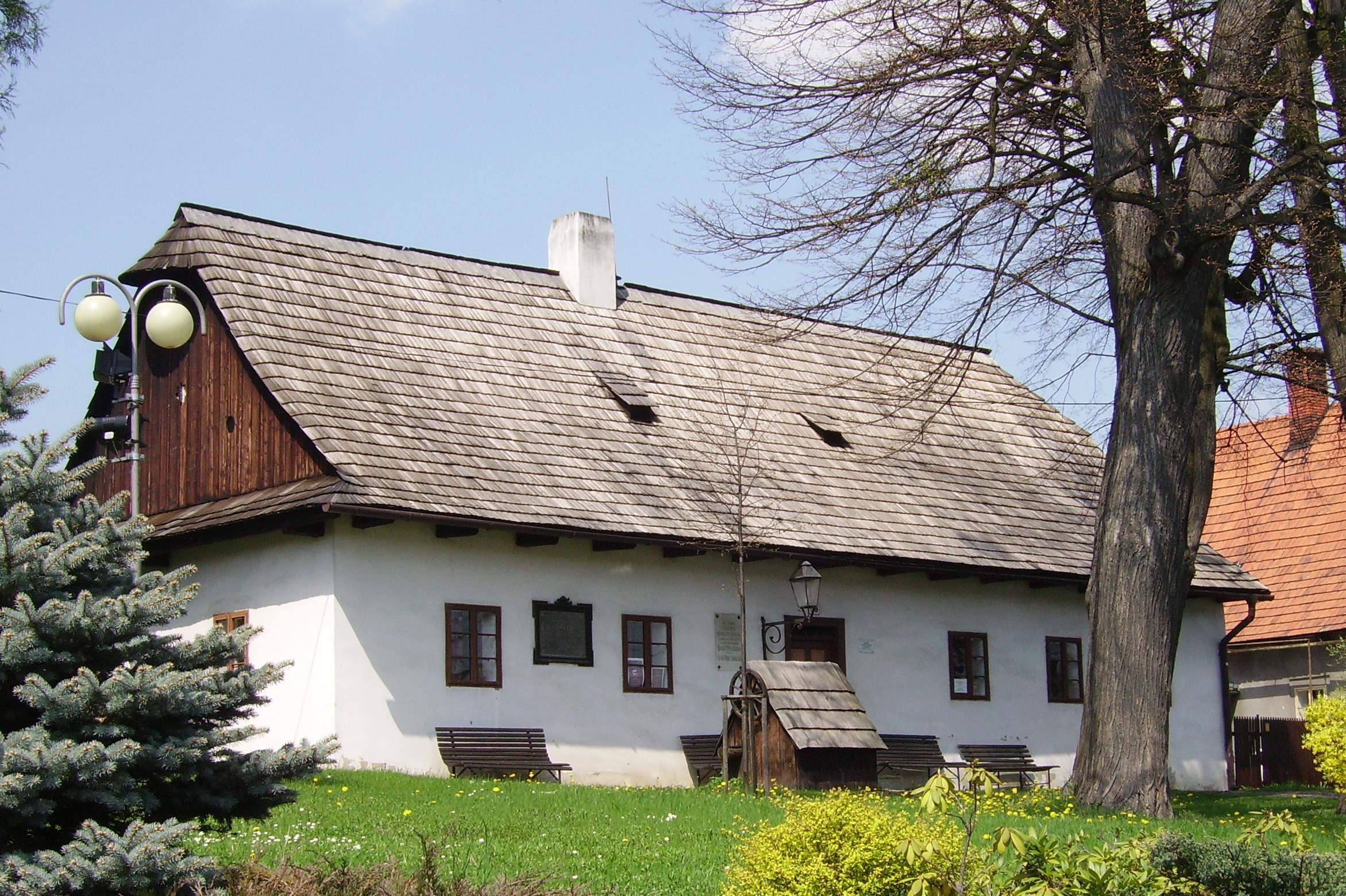 Birth house of František Palacký in Hodslavice, Nový Jičín District, Czech Republic